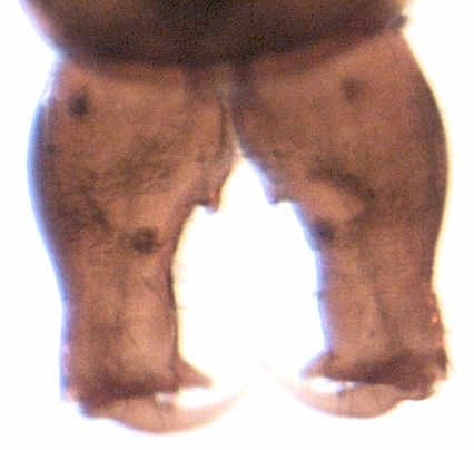 Chelicerae of Dunedinia cf. denticulata, note the extra denticle on each chelicera